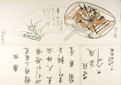 daiōban surimono by Kunisada, upper part Ichikawa Danjūrō VII and poem, lower part invitation text, c. 1825